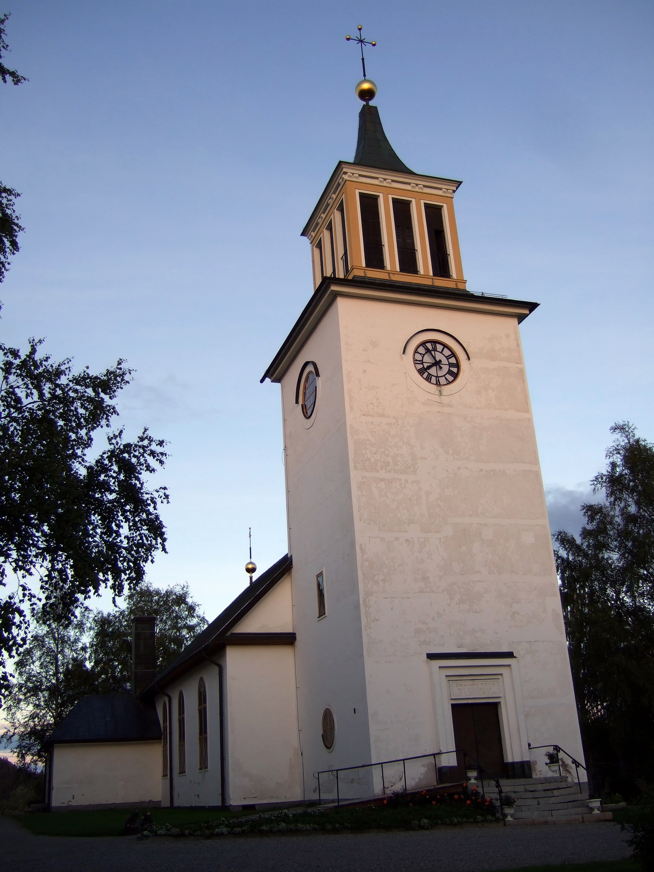 Dorotea church in Dorotea, Sweden